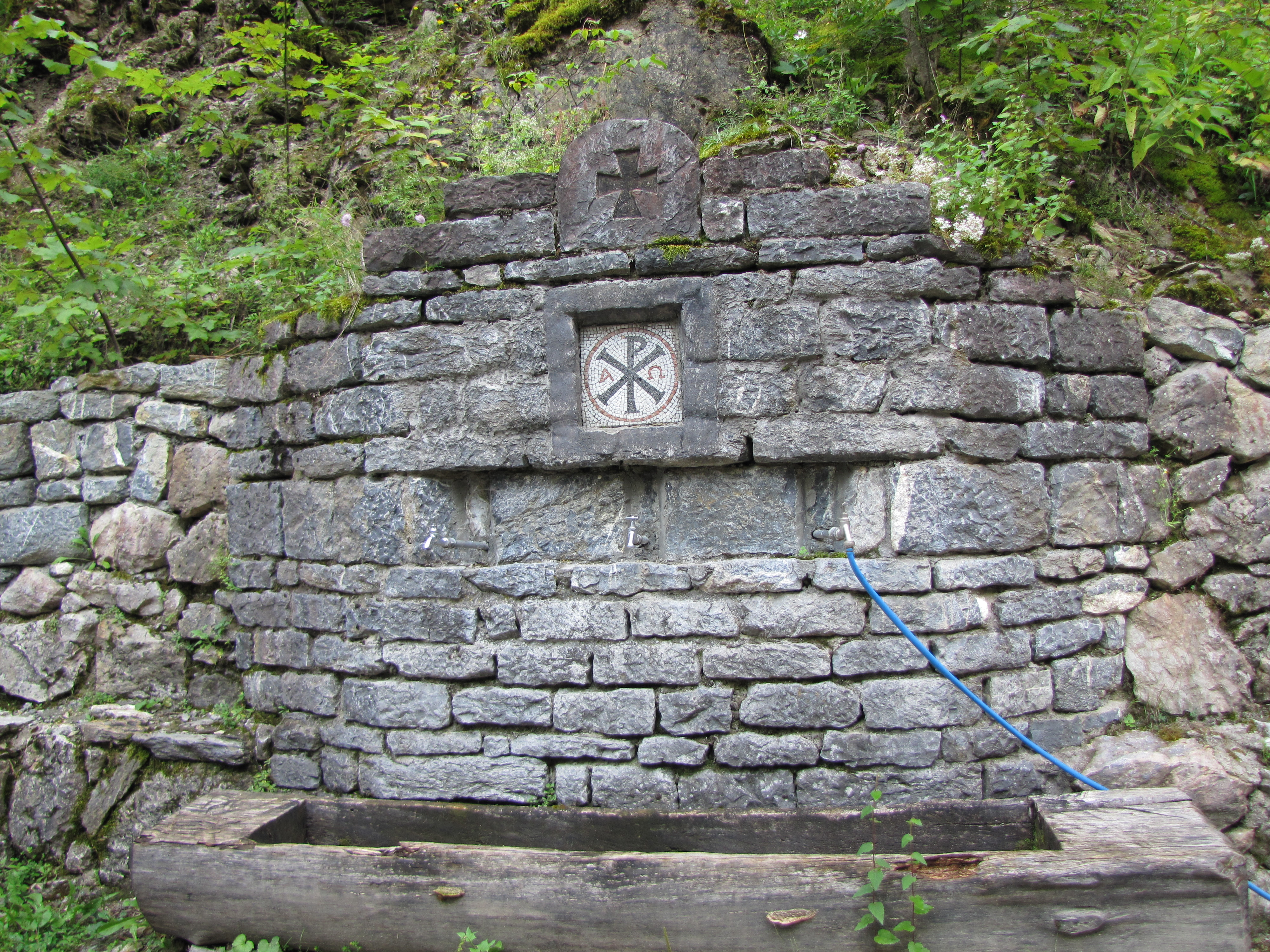 Monastery Crna Reka near Tutin (SW Serbia).